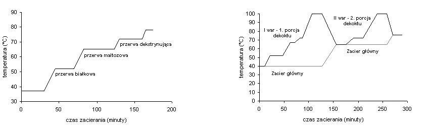 Infusion and decoction mashing